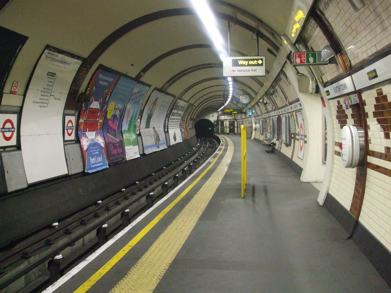 Kentish Town station northbound Northern line platform looking north